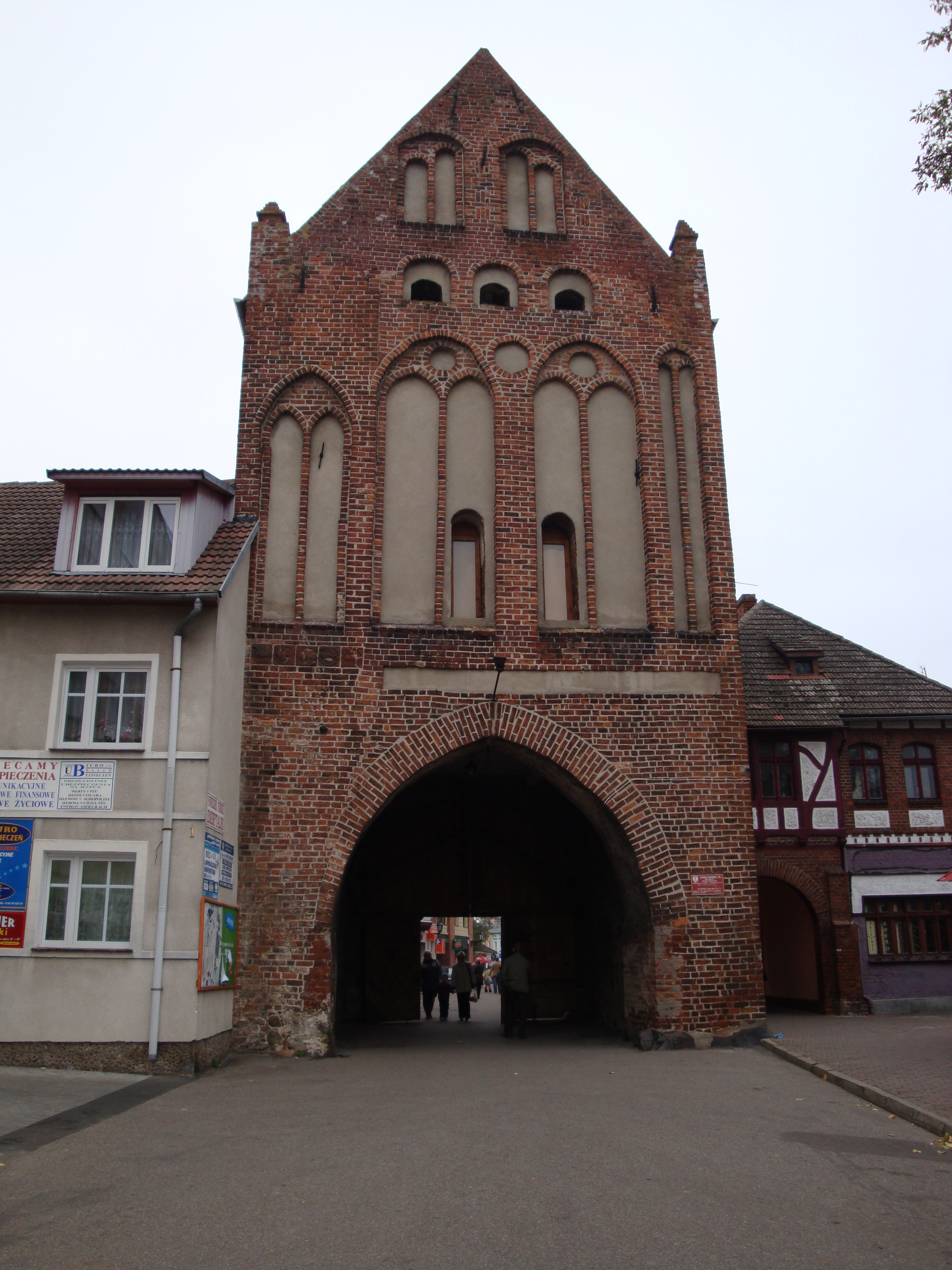 Kamienna Gate (Stone Gate) in Świdwin